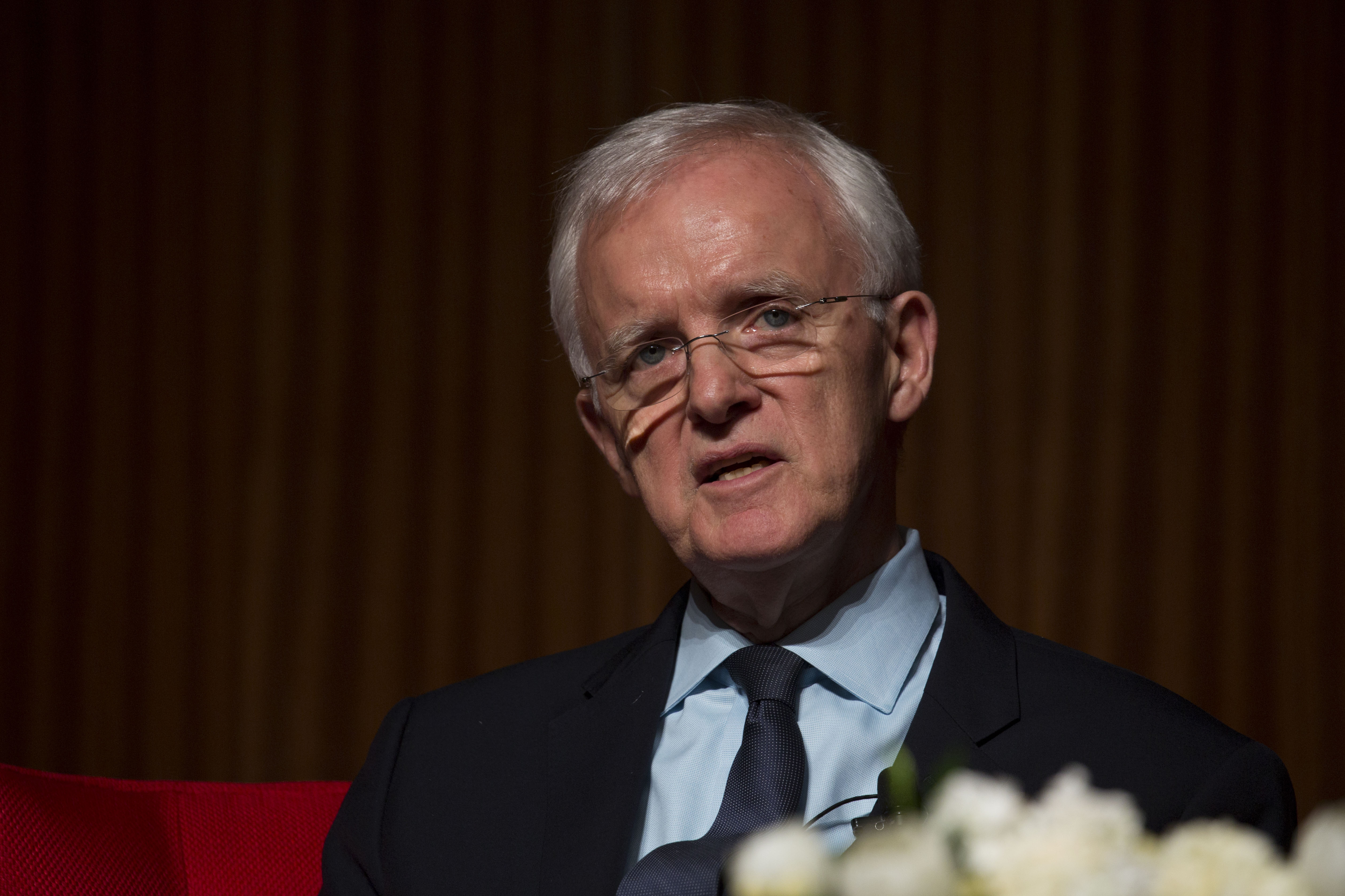 Bob Kerrey, former governor of Nebraska, former U.S. Senator, and Medal of Honor recipient for his service as a Navy SEAL in Vietnam, speaks at the LBJ Presidential Library's Vietnam War Summit on Thursday, April 28, 2016. He participated in a panel discussion about lessons learned from the Vietnam War. Other panelists were Charles Robb, former governor of Virginia, former U.S. Senator, and Vietnam veteran; and William McRaven, chancellor of the University of Texas System and former Commander of United States Special Operations Command. University of Texas at Austin history professor Mark Lawrence, who has written several books about the Vietnam War, moderated the discussion. LBJ Library photo by David Hume Kennerly 04/28/2016.